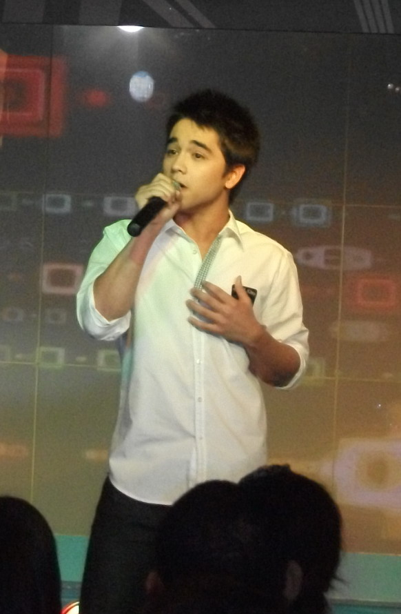 Alexander Rendell singing on stage at Siam Square.